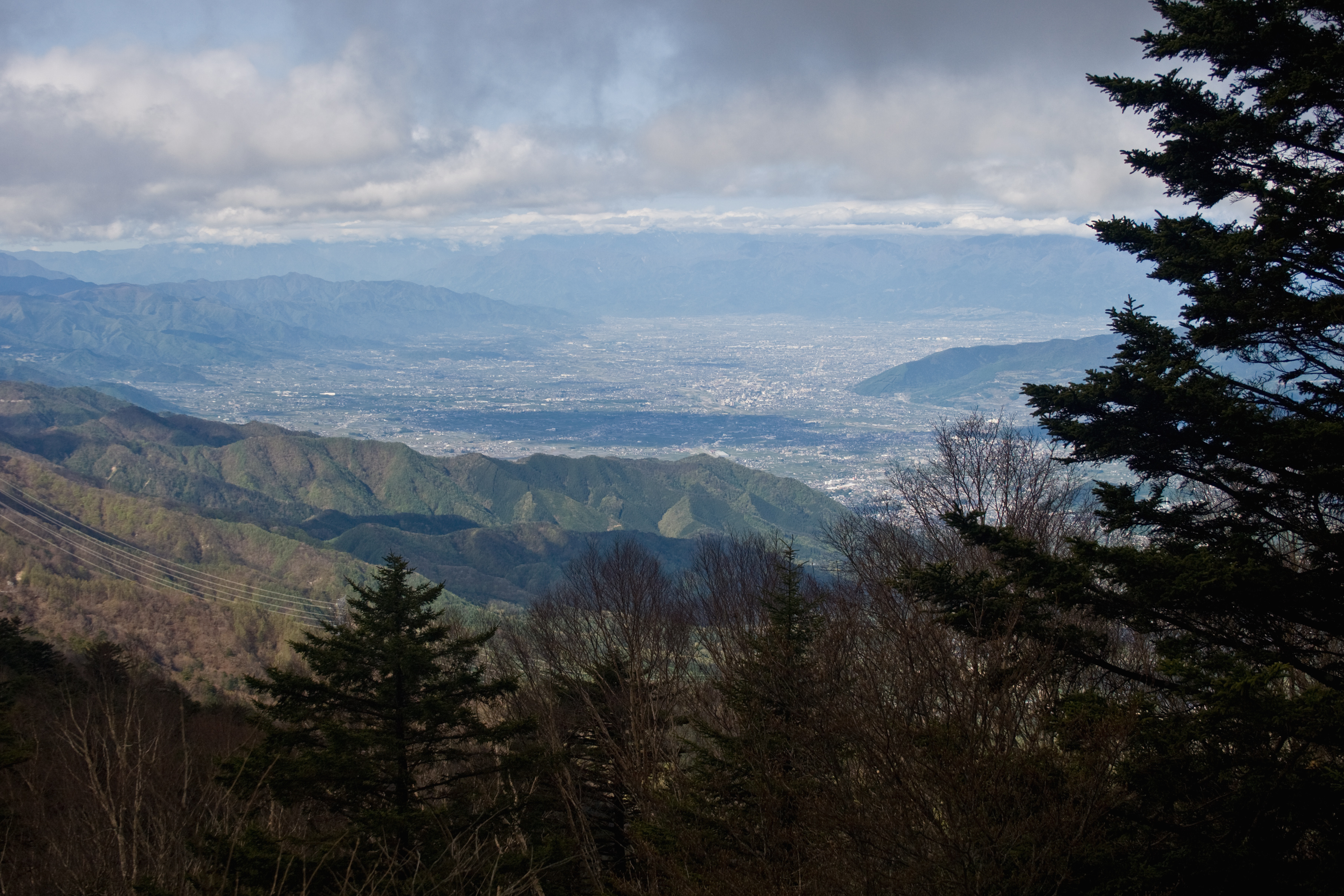 Kofu-Basin seen from Mt.Daibosatsurei, Yamanashi, Japan.